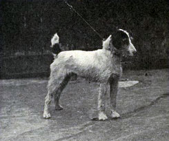 Photograph of the Duchess of Newcastle's Fox Terrier Christopher of Notts